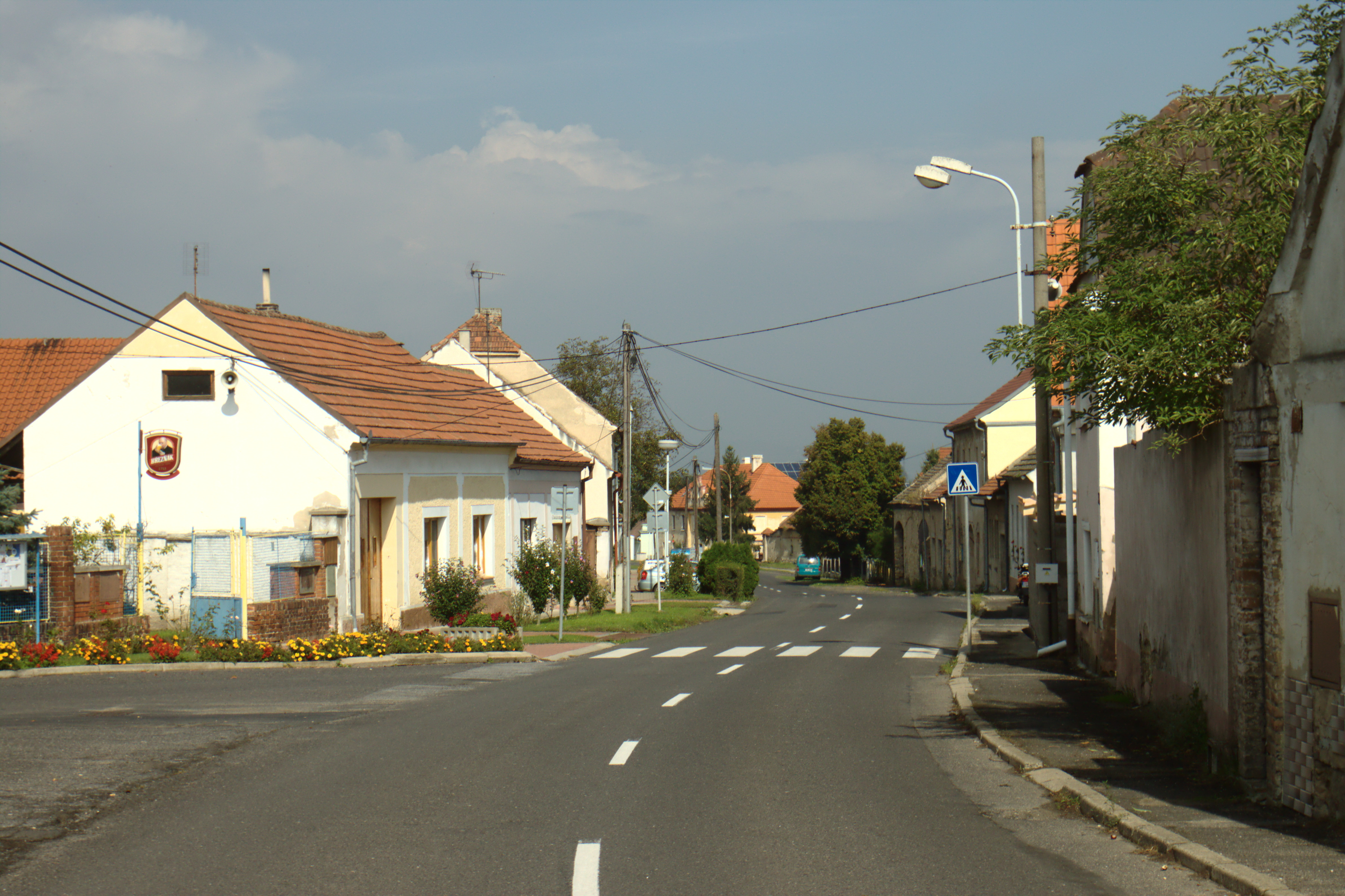 Main road in the village of Židovice, Ústí Region, CZ